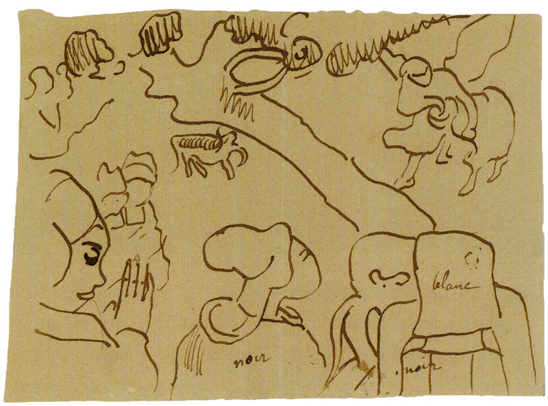 Sketch from a letter from Paul Gauguin to Vincent van Gogh, dated 26 September 1888